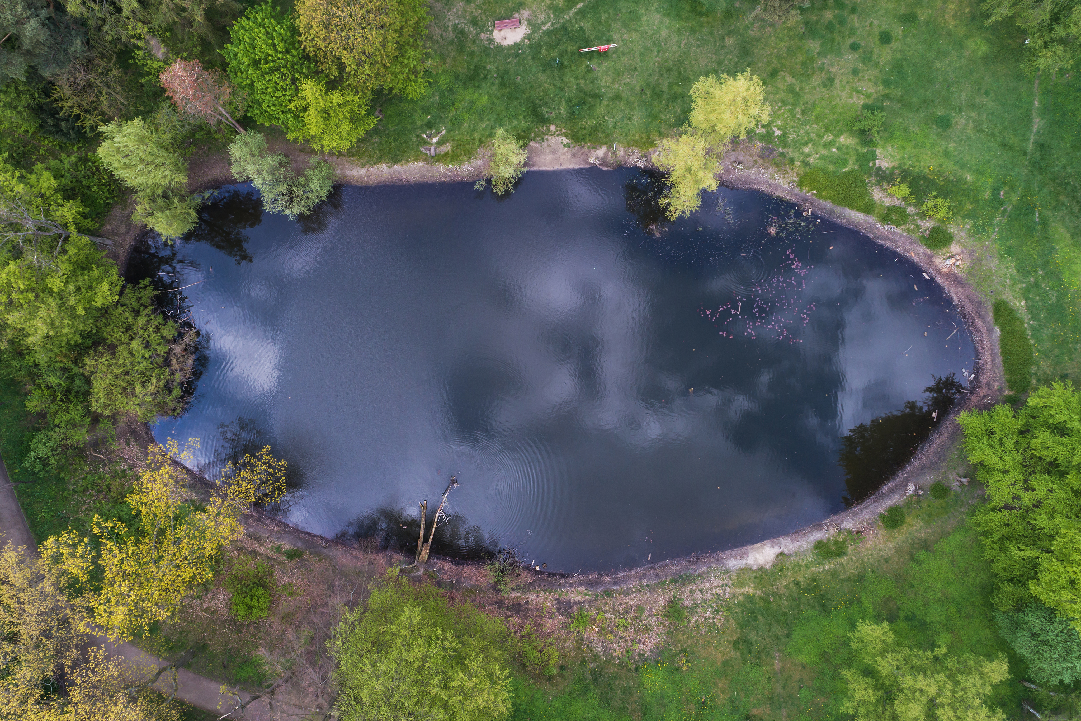 Lake Blanke Helle at Alboinplatz in Berlin (Germany)